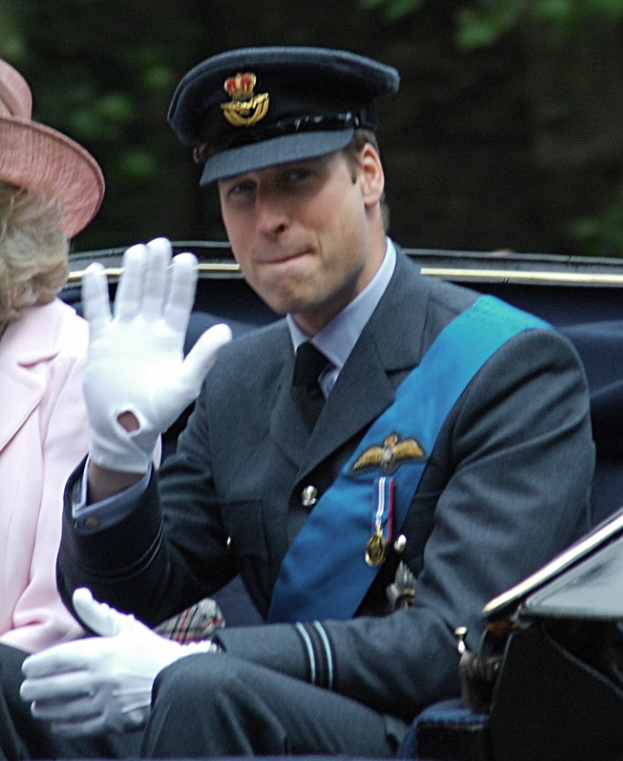 His Royal Highness Prince William of Wales, RAF. Prince William is wearing the uniform of a flight lieutenant.